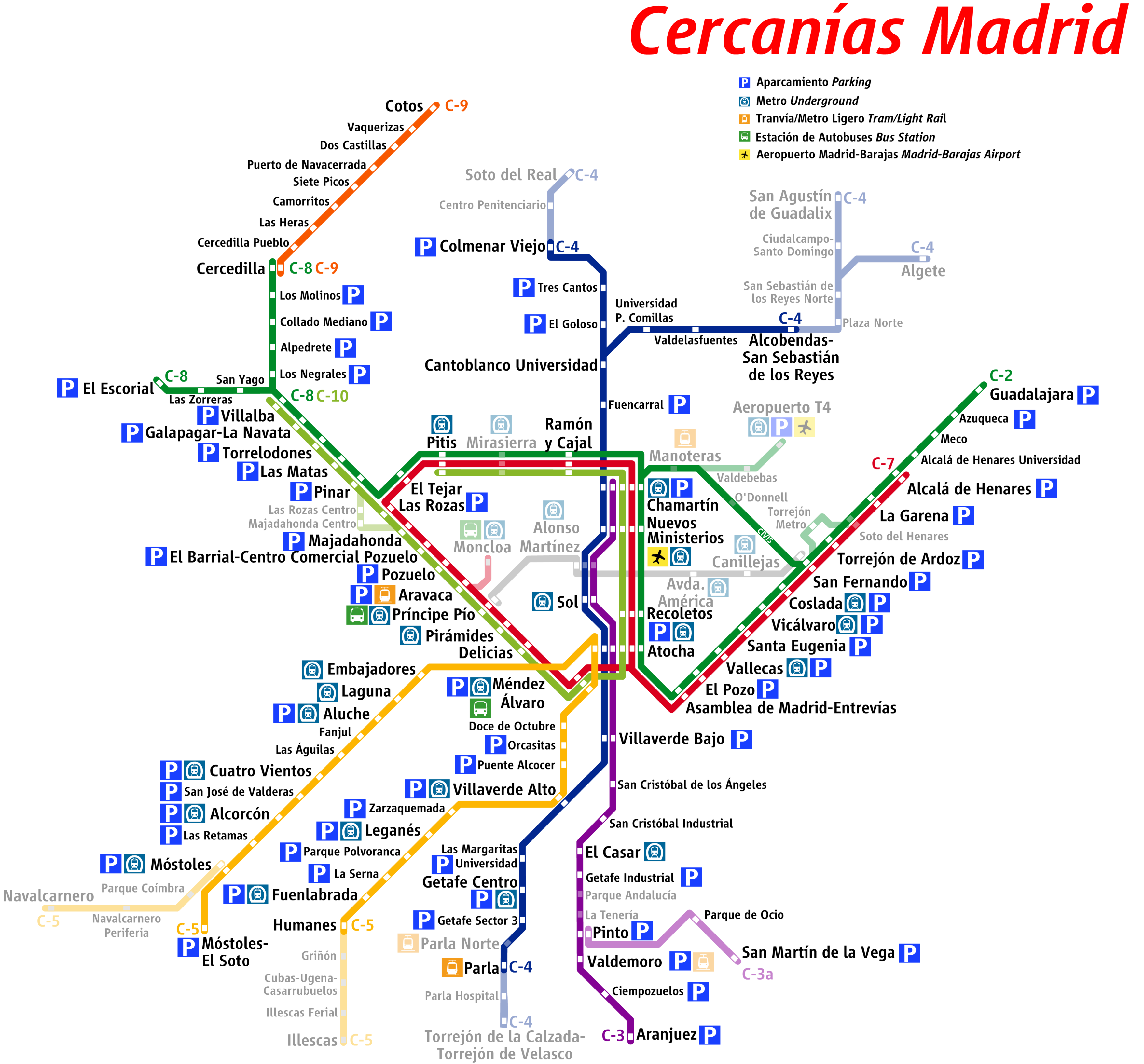 Map of Madrid suburban rail network (as of June 2009), with future extensions